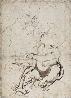 Madonna and Child with a Bowl of Fruit